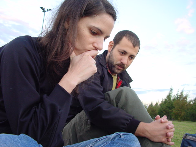 Woman is thinking before making a choice.